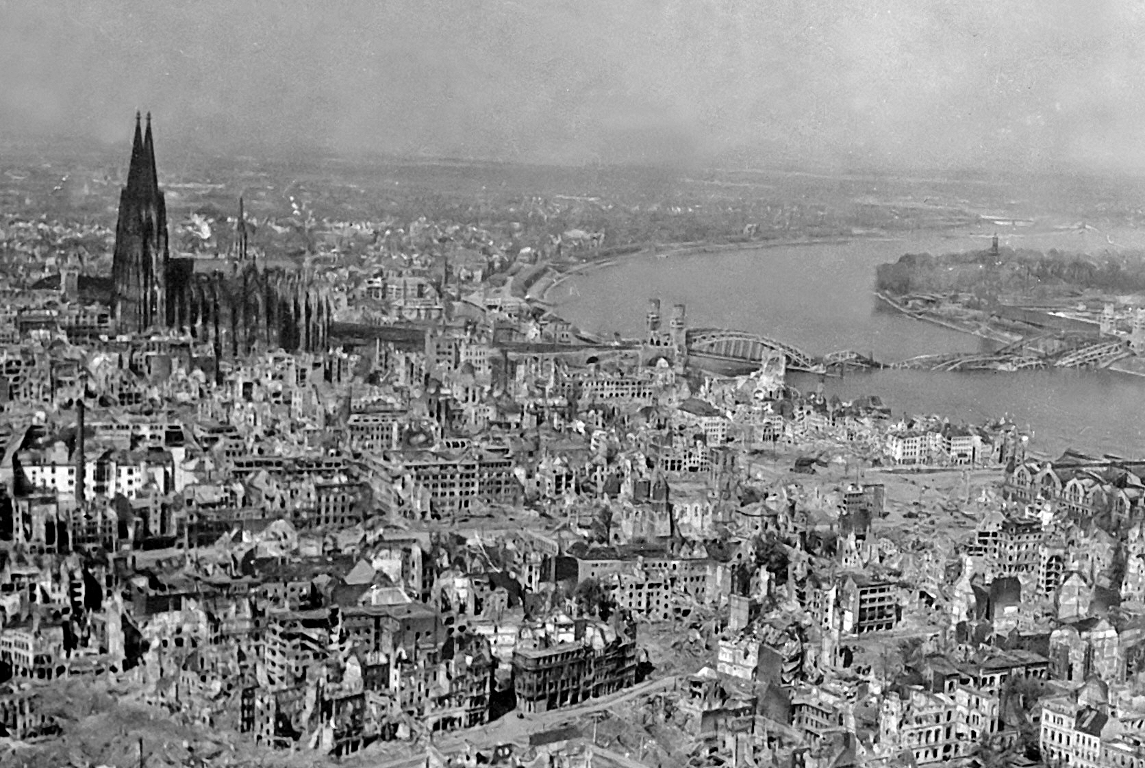 The Kölner Dom (Cologne Cathedral) stands seemingly undamaged (although having been directly hit several times and damaged severely) while entire area surrounding it is completely devastated. The Hauptbahnhof (Köln Central Station) and Hohenzollern Bridge lie damaged to the north and east of the cathedral. Germany, 24 April 1945.